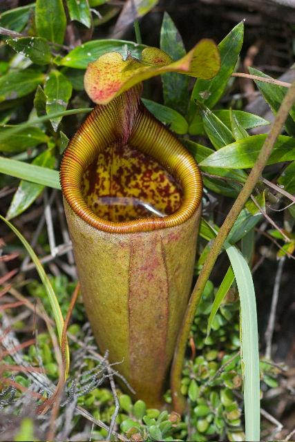 Nepenthes mantalingajanensis at its type locality on Mt Mantalingahan, Palawan (Alastair Robinson, July 2007) - lower pitcher